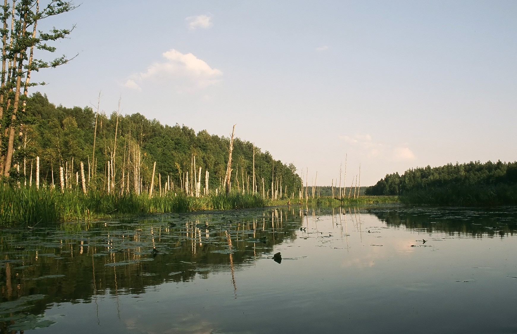 Rospuda river between lakes: Sumowo and Okragle, near Kotowina village, Suwalszczyzna region, north-east Poland